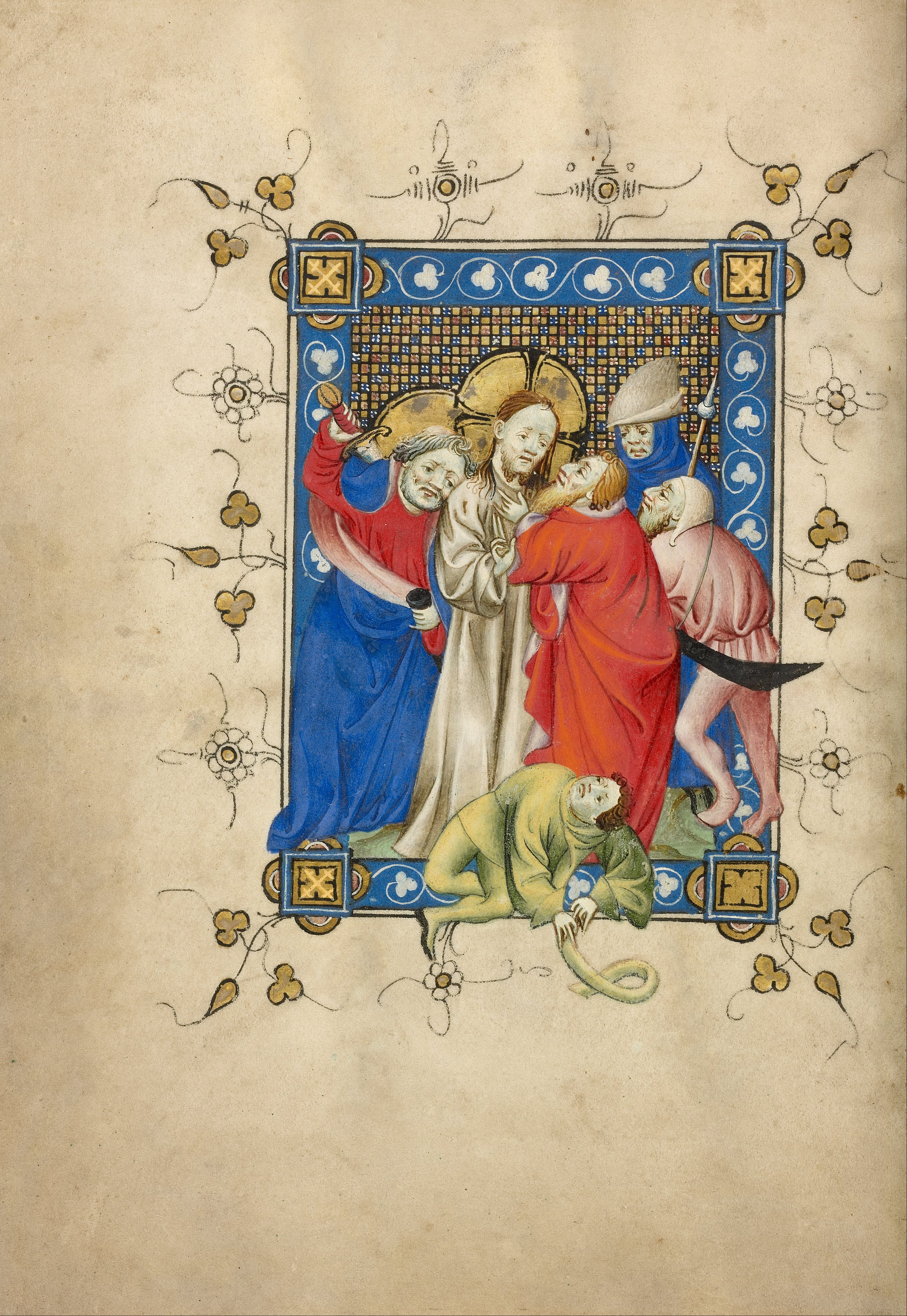 Within the shallow, almost claustrophobic space of this miniature, Judas betrays Jesus with a kiss, a pre-arranged signal that alerts the Roman soldiers to Jesus' identity. On the left, the apostle Peter raises his sword to cut off the Roman soldier Malchus's ear. Clad in bright green, this small figure falls awkwardly to the ground before Jesus. On the right, soldiers muscle in to arrest Jesus. Pushing, gesturing soldiers on one side and Peter's upraised sword on the other overlap the image's frame. The artist crowded the composition in this way to heighten the scene's emotion and tension. Collapsed at the miniature's bottom edge, the figure of Malchus plays an important role, extending the pictorial space into the unpainted margin and drawing the viewer into the painting in this tiny book.